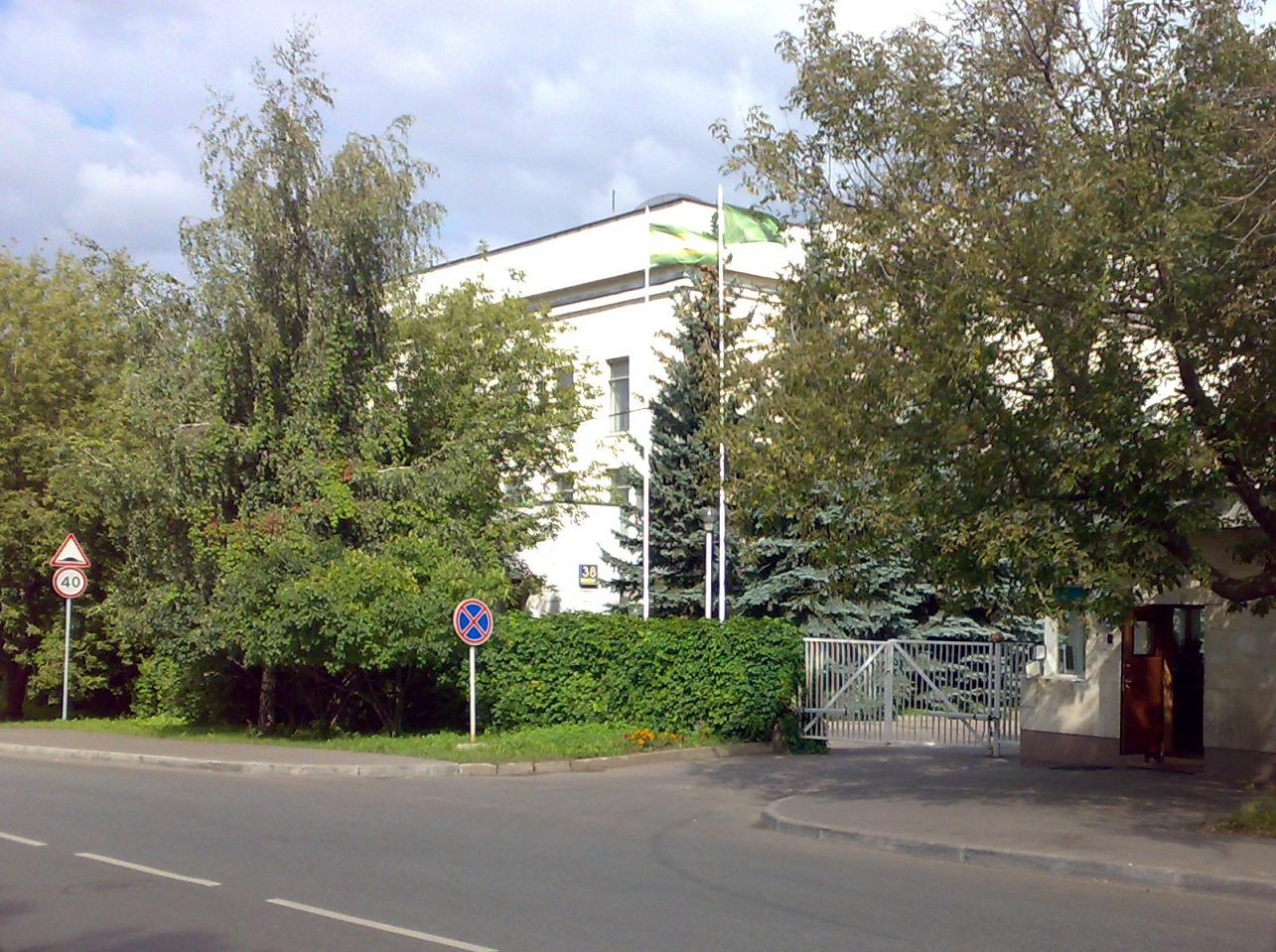 took this image using my mobile on 2 September 2008. The Lybian Embassy, Moscow.